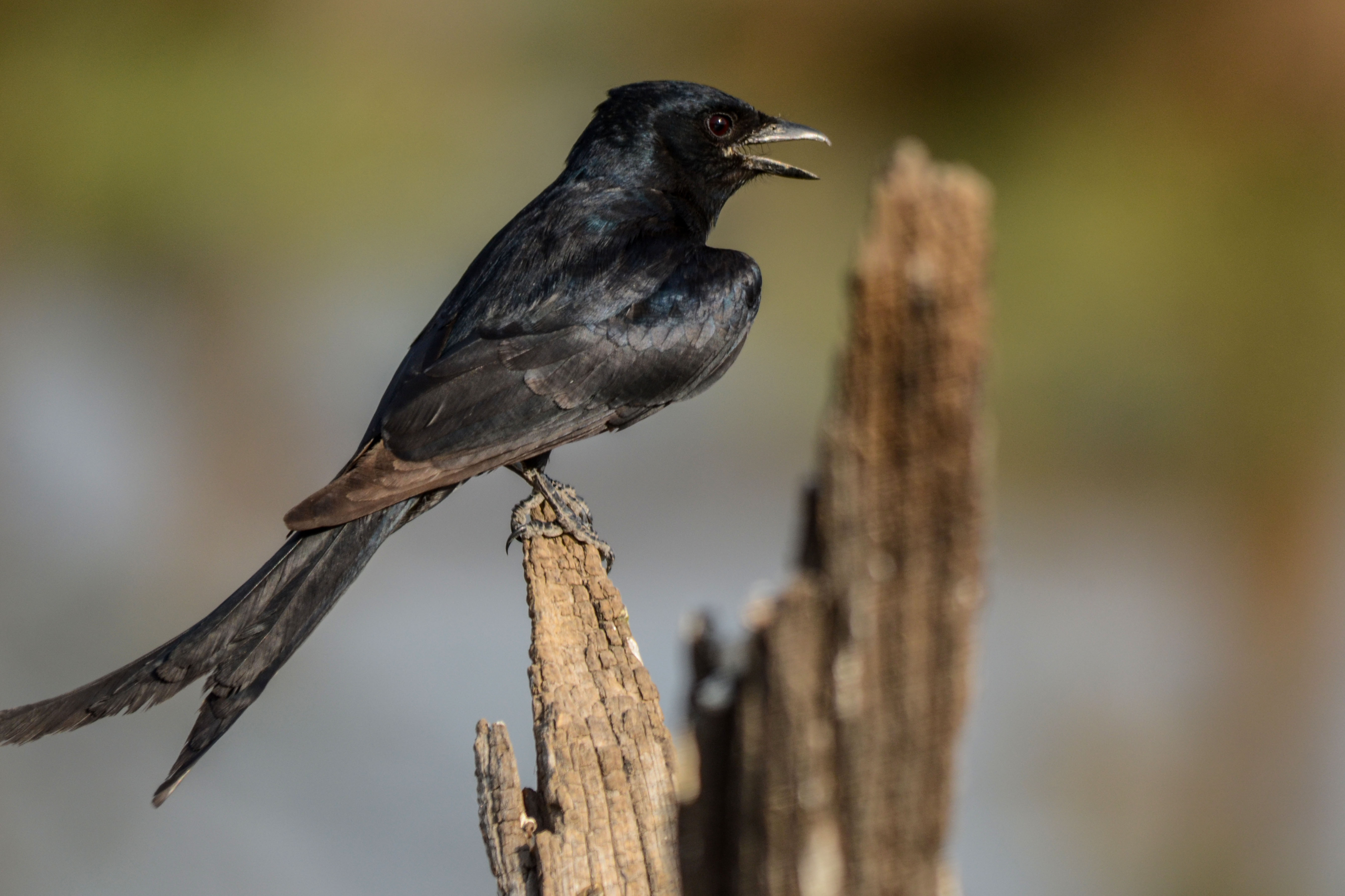 BLACK DRONGO IN A FARM